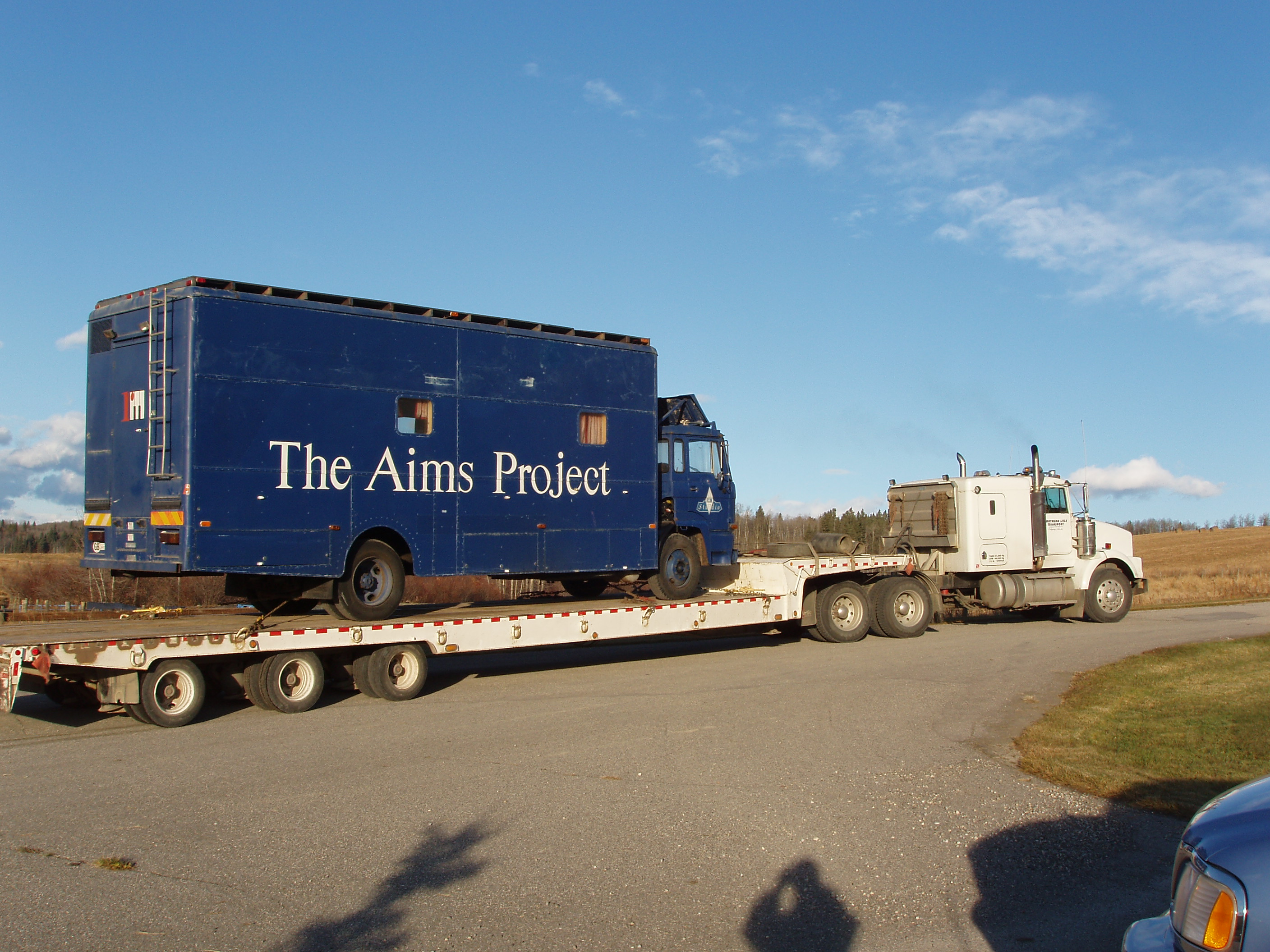 Photo taken by Cantos Music Foundation